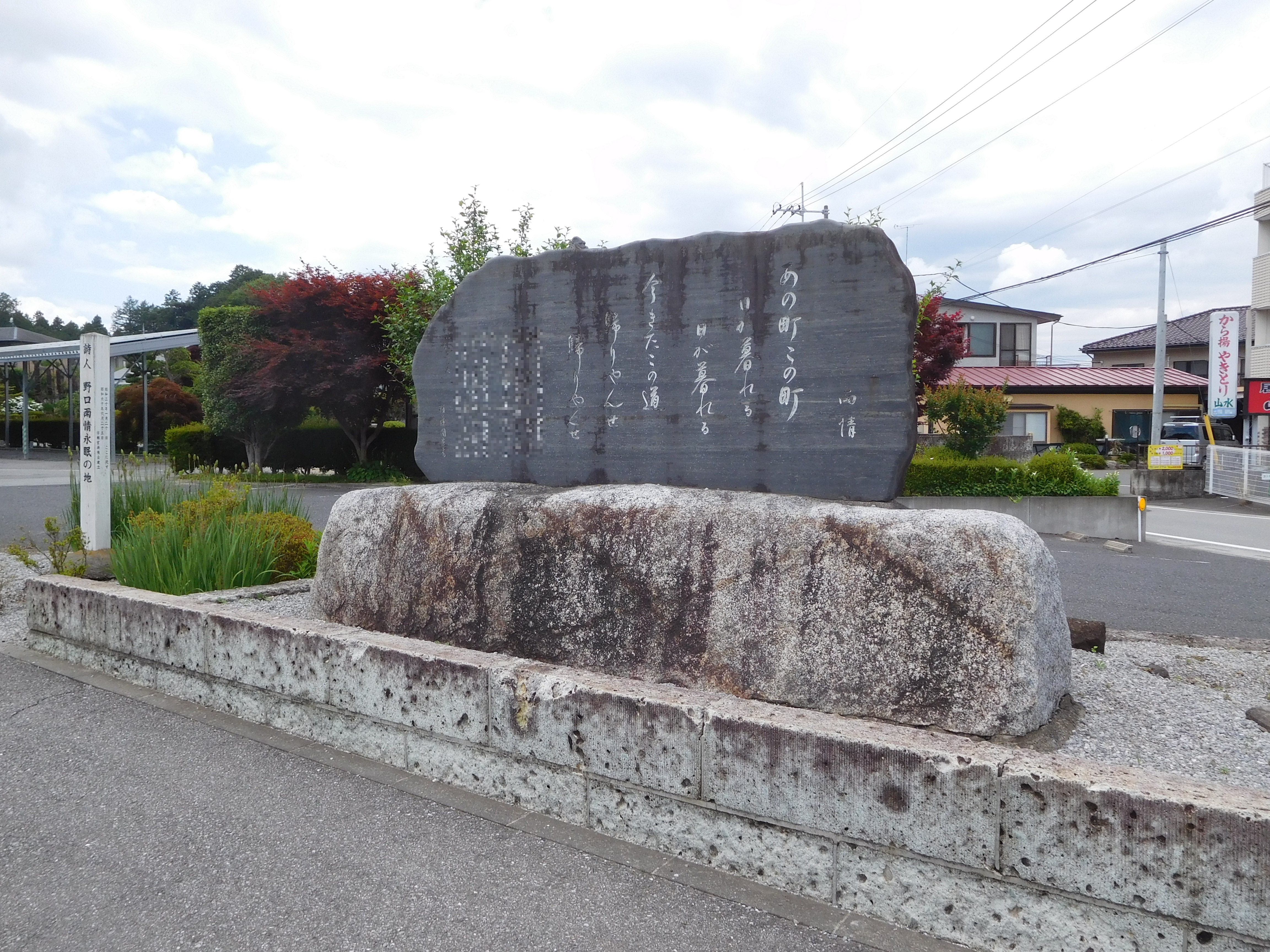 This is a monument of "That Town, This Town" (or "Ano Machi Kono Machi", a poem written by NOGUCHI Ujo) in Utsunomiya, Tochigi, Japan.